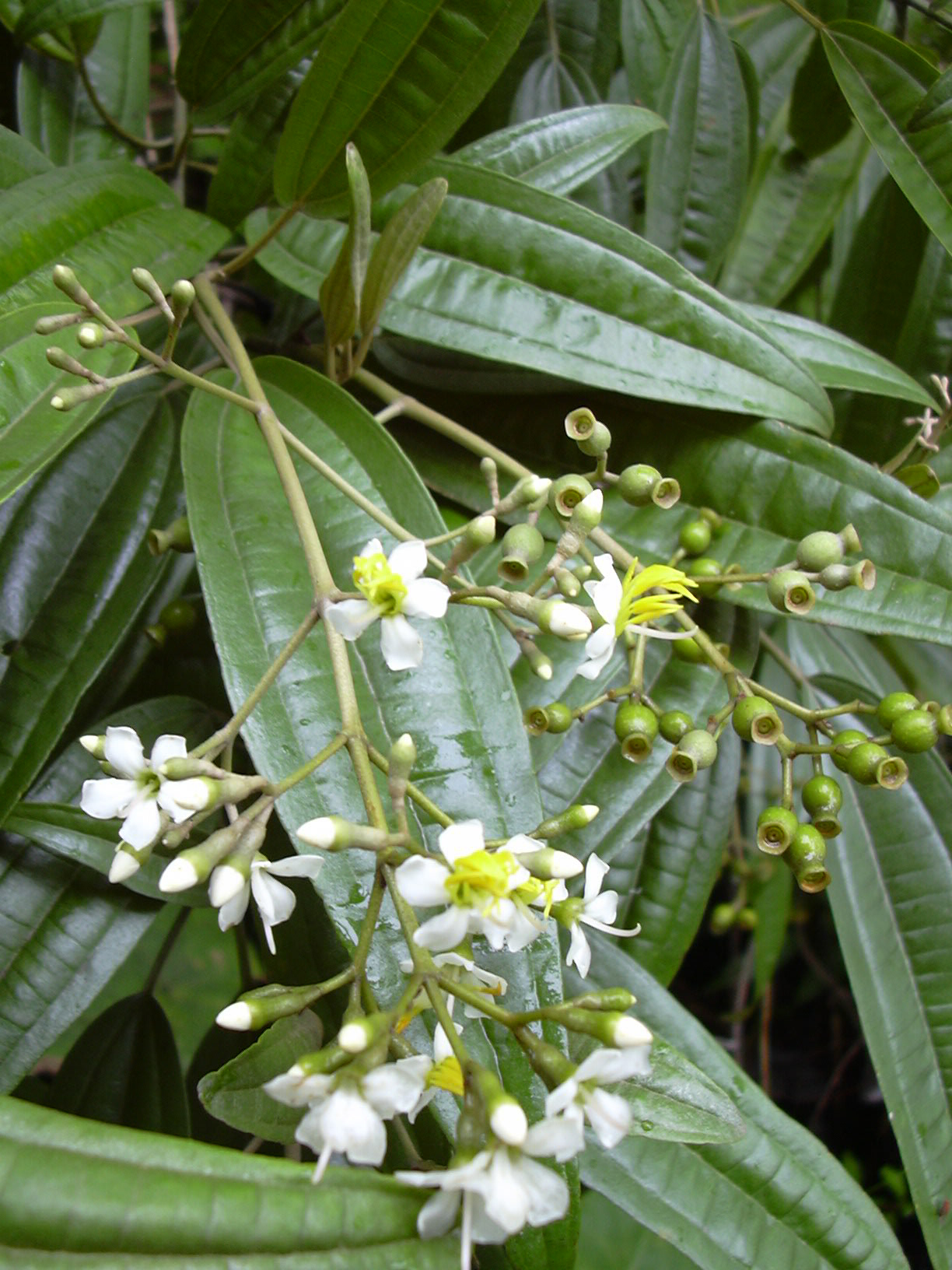 Tetrazygia bicolor (flowers). Location: Hawaii, Hilo